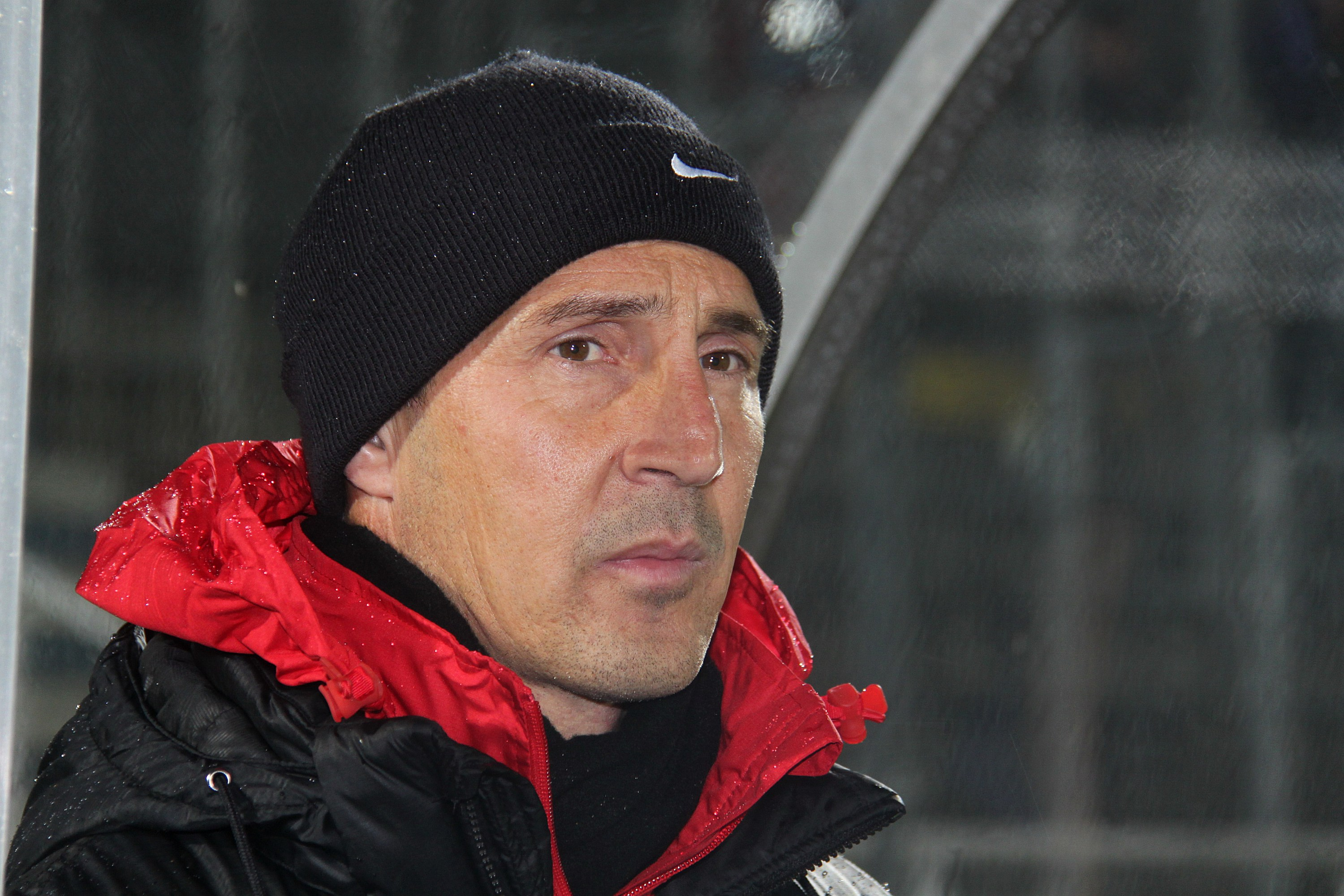 Austrian Football Bundesliga: SC Wiener Neustadt vs. SV Grödig (0:2) at 2013-11-23 in the Stadion Wiener Neustadt. – The photo shows the coach of SV Grödig Adolf Hütter.